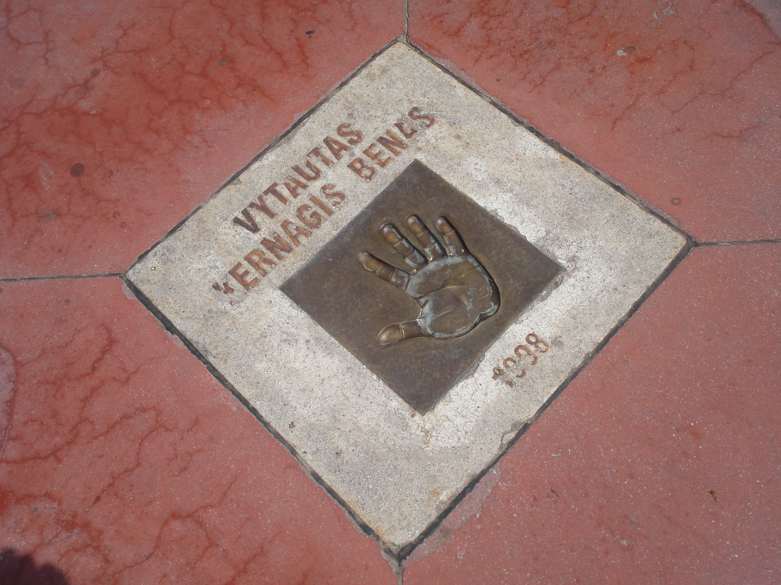 Walk of Fame in Nida: Vytautas Kernagis